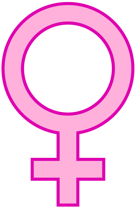 Pink "Female" symbol created in Adobe Illustrator CS3, and Adobe Photoshop CS3